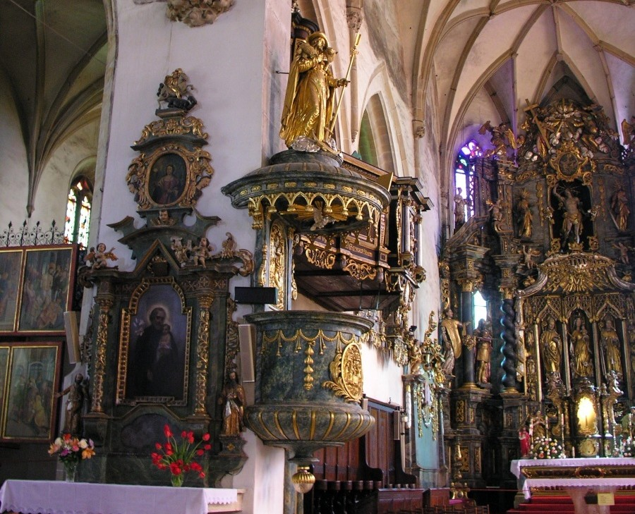 Kazateľnica v Konkatedrále sv. Mikuláša